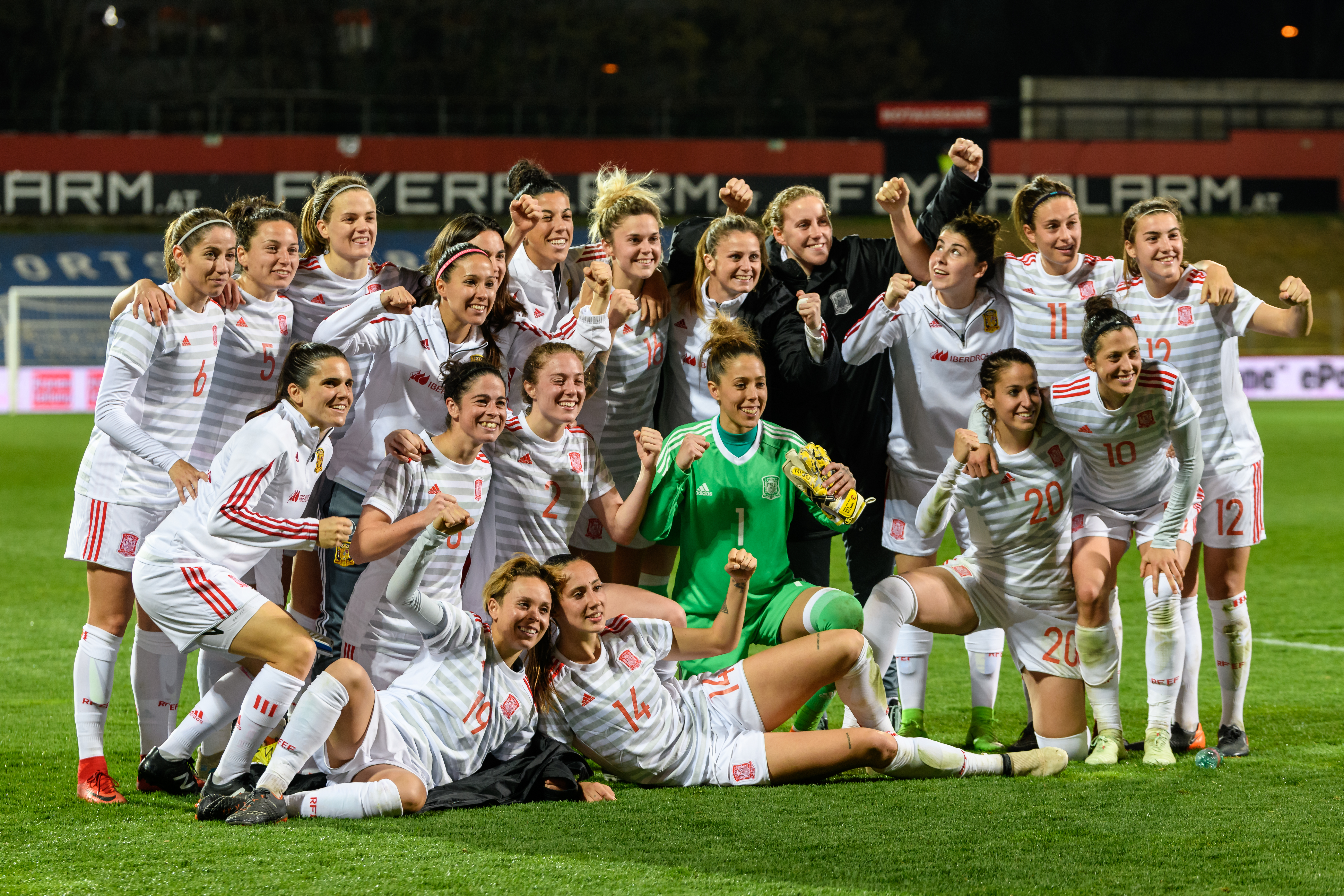 FIFA Women's World Cup 2019 Qualification Austria vs. Spain 2018/04/10. Picture shows team of Spain after the match.